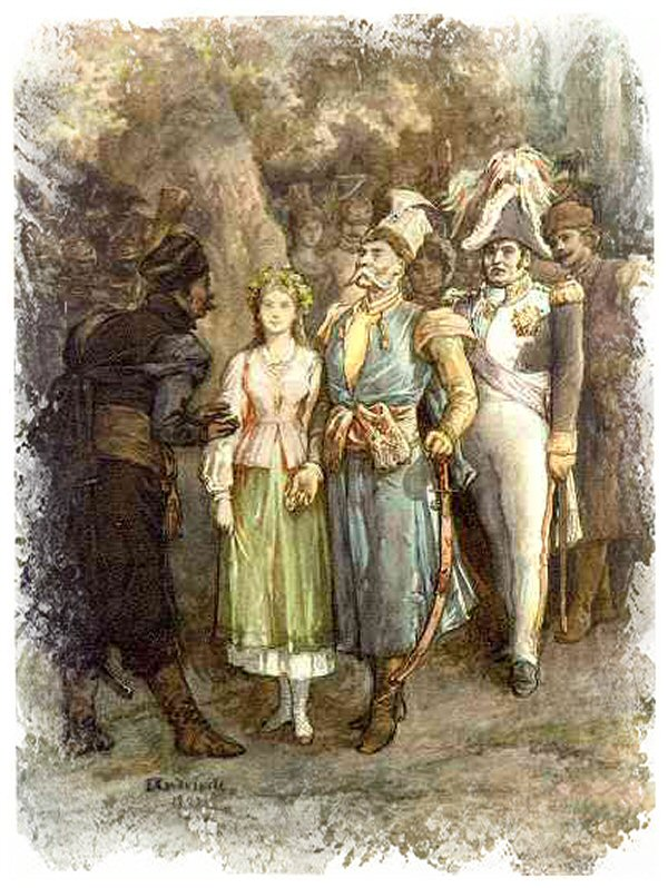 Illustration of Pan Tadeusz, Book 12